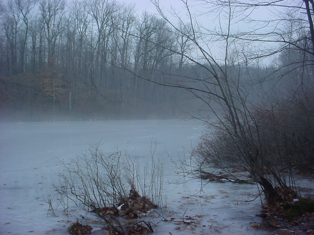 Devil's Bathtub, Mendon Ponds Park. Monroe County, NY state Mendon Ponds Park is the largest Monroe County Park with 2,500 acres of woodlands, ponds, wetlands and glacially created landforms. In 1969, it was named to the National Registry of Natural Landmarks.